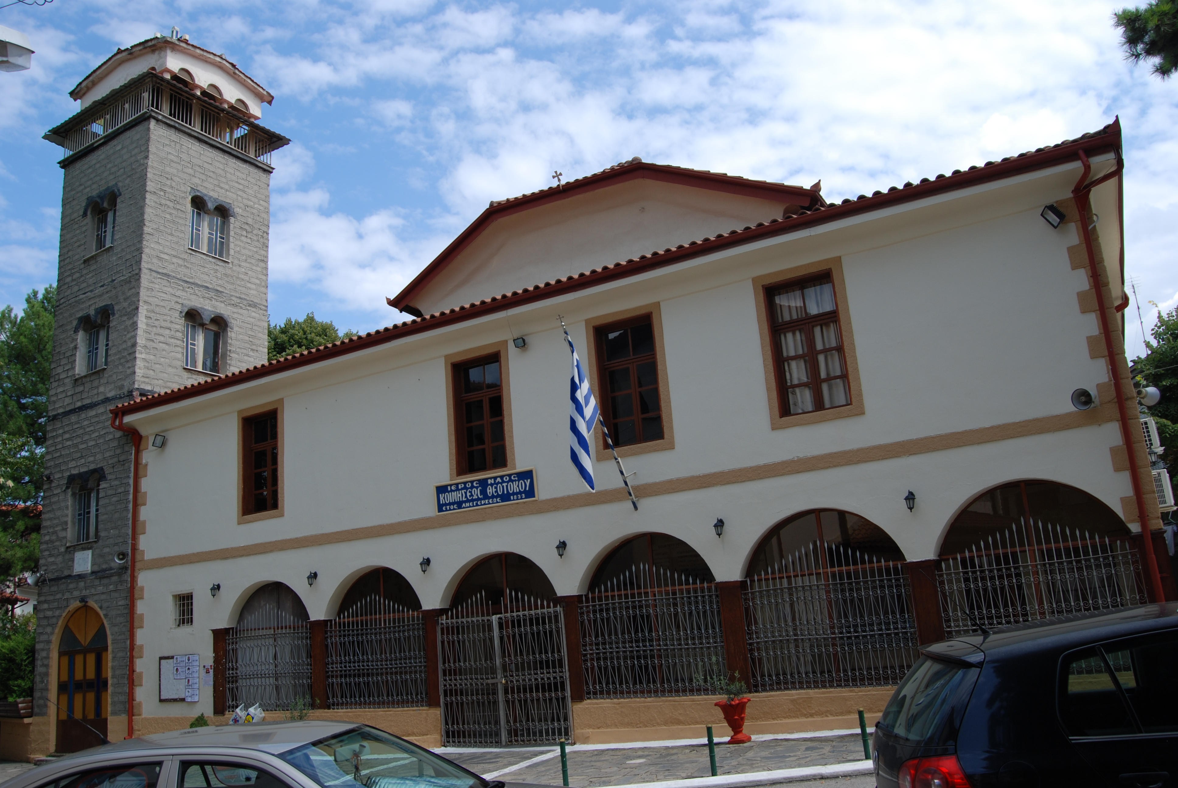 Dormition of Mary Church2, Negush